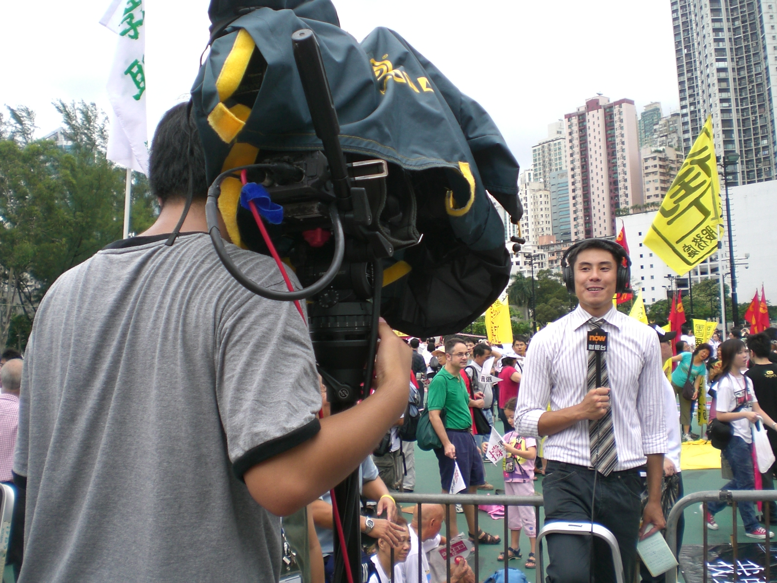 now寬頻電視新聞台, Now TV reporter.